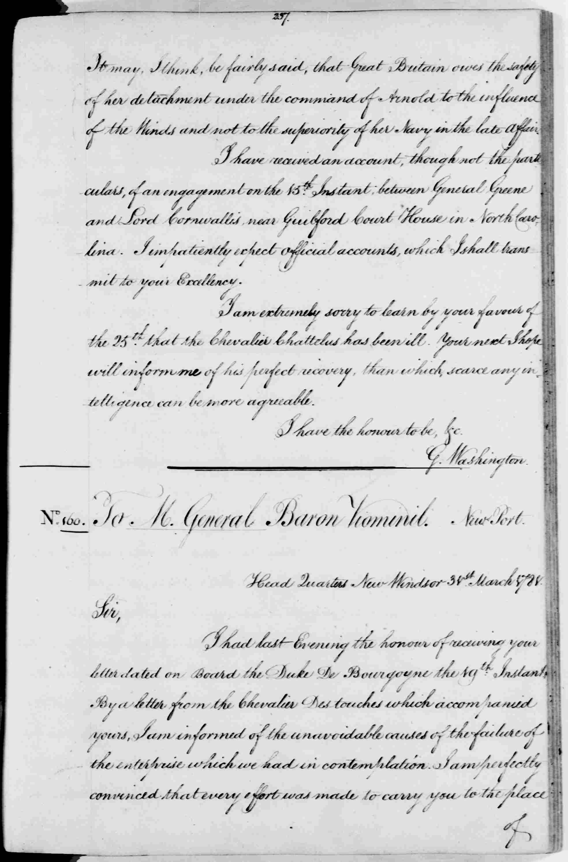 Photograph of letter from General George Washington to Antoine Charles du Houx, Baron de Viomenil, Comte de Rochambeau, in which Washington reports that "I have received an account, though not the particulars, of an engagement on the 15th Instant, between General Greene and Lord Cornwallis near Guilford Court House in North Carolina. I impatiently expect official accounts, which I shall transmit to your Excellency." The George Washington Papers, Series 3, Varick Transcripts, Library of Congress, Washington, D.C.